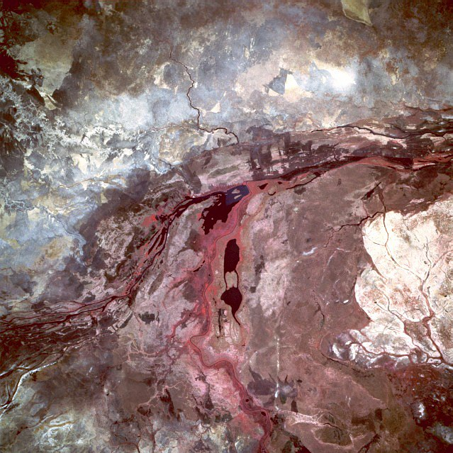 Sudd Swamp -a Flooded grasslands and savannas ecoregion in South Sudan. To the left the river/wetland Bahr al-Ghazal connecting to Lake No (top). This photograph was taken during the driest time of year—summer rains generally extend from July through September. Taken from space, May 1993.